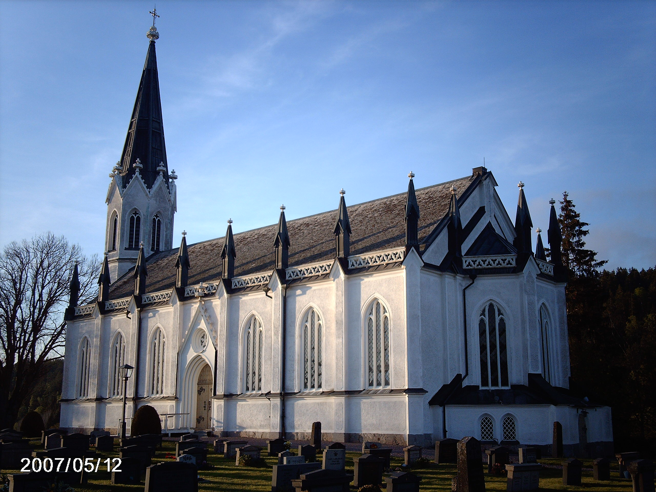 Picture on Gärdserums church